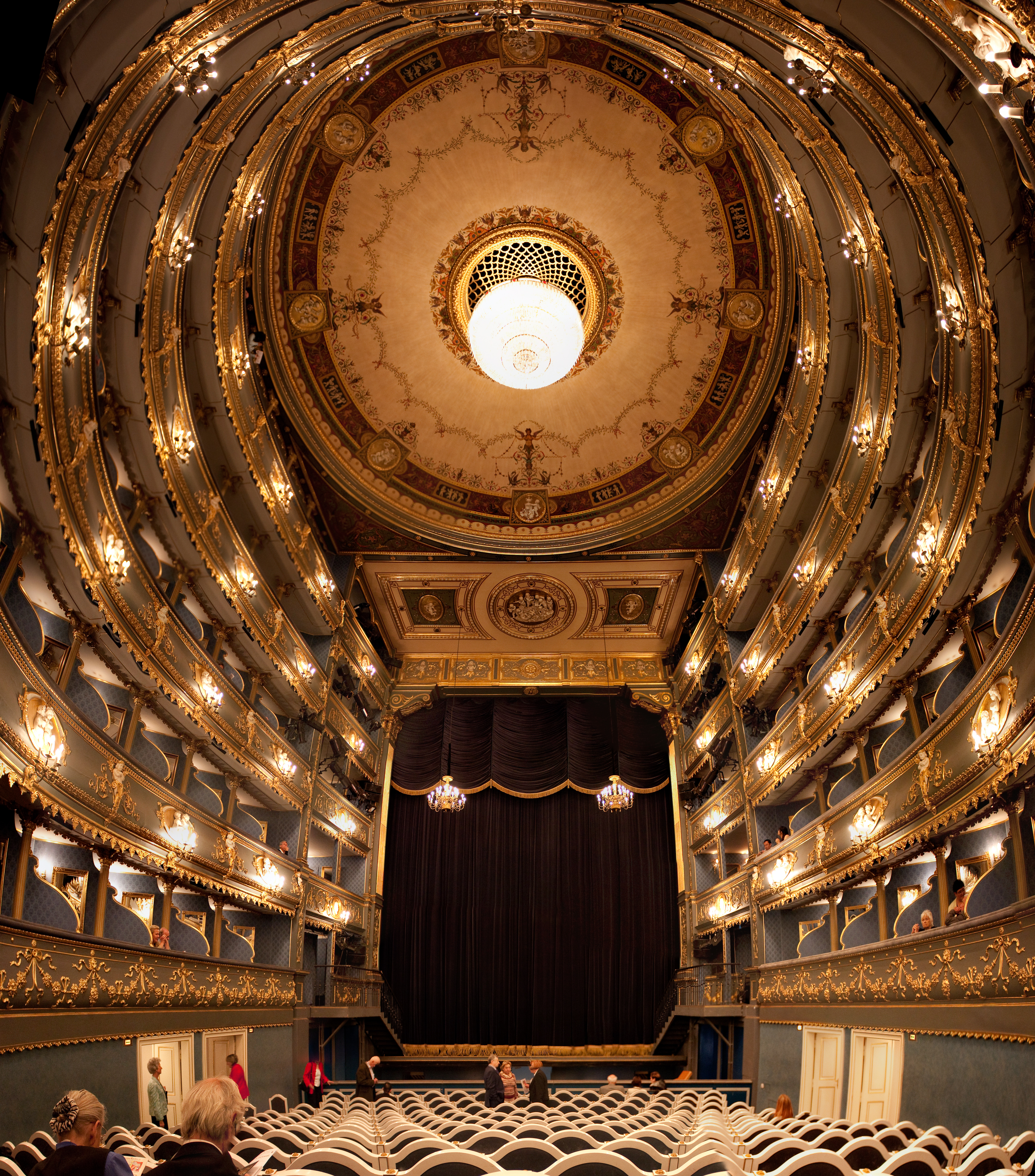 The interior of the Opera, as shot from the middle seats of the last row. Image is a stitched panorama.